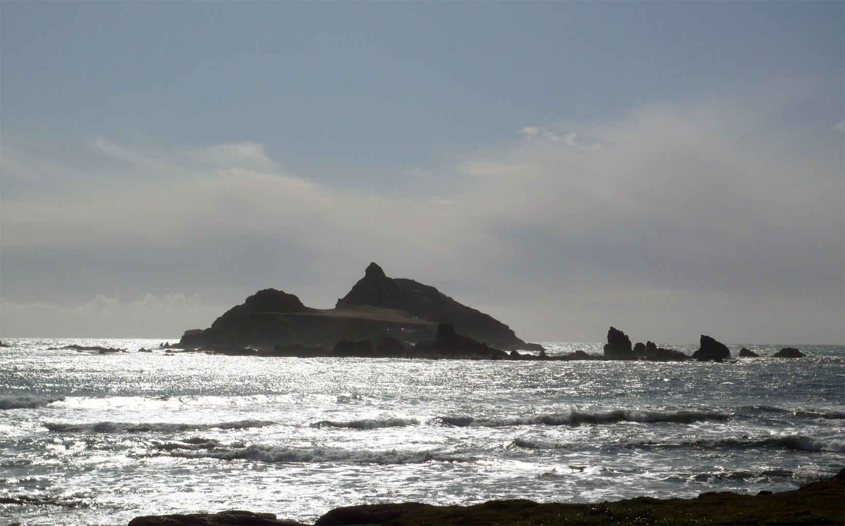 A view of Castle Rock National Wildlife Refuge preserve in the Pacific Ocean from an overlook in Crescent City, California.